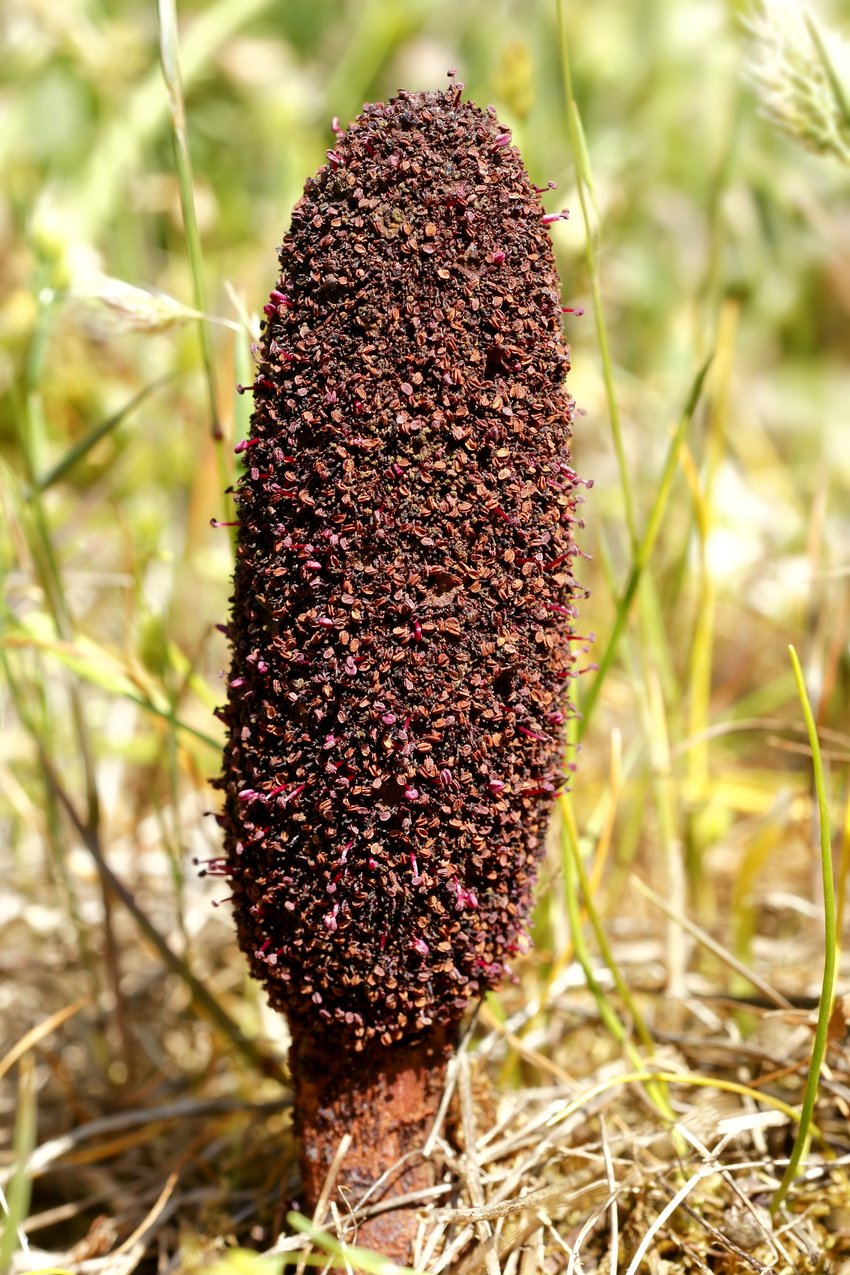 Holoparasite on Chenopodiaceae, close to Torregrande, Sardinia, Italy.